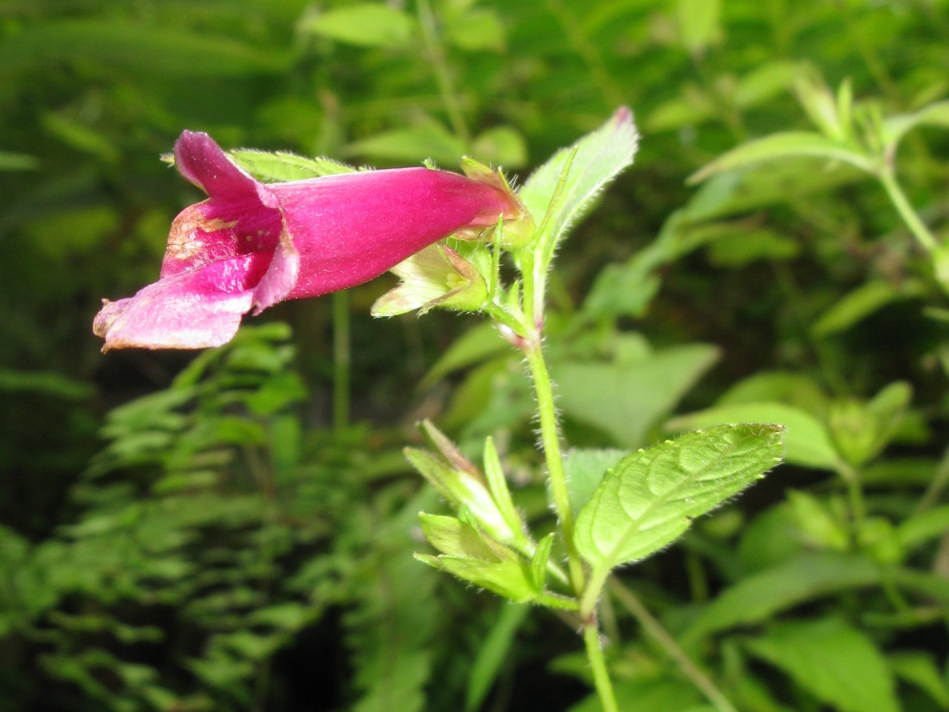 Chelonopsis yagiharana, Botanical Gardens, Nikko, Graduate School of Science, The University of Tokyo, Tochigi pref., Japan